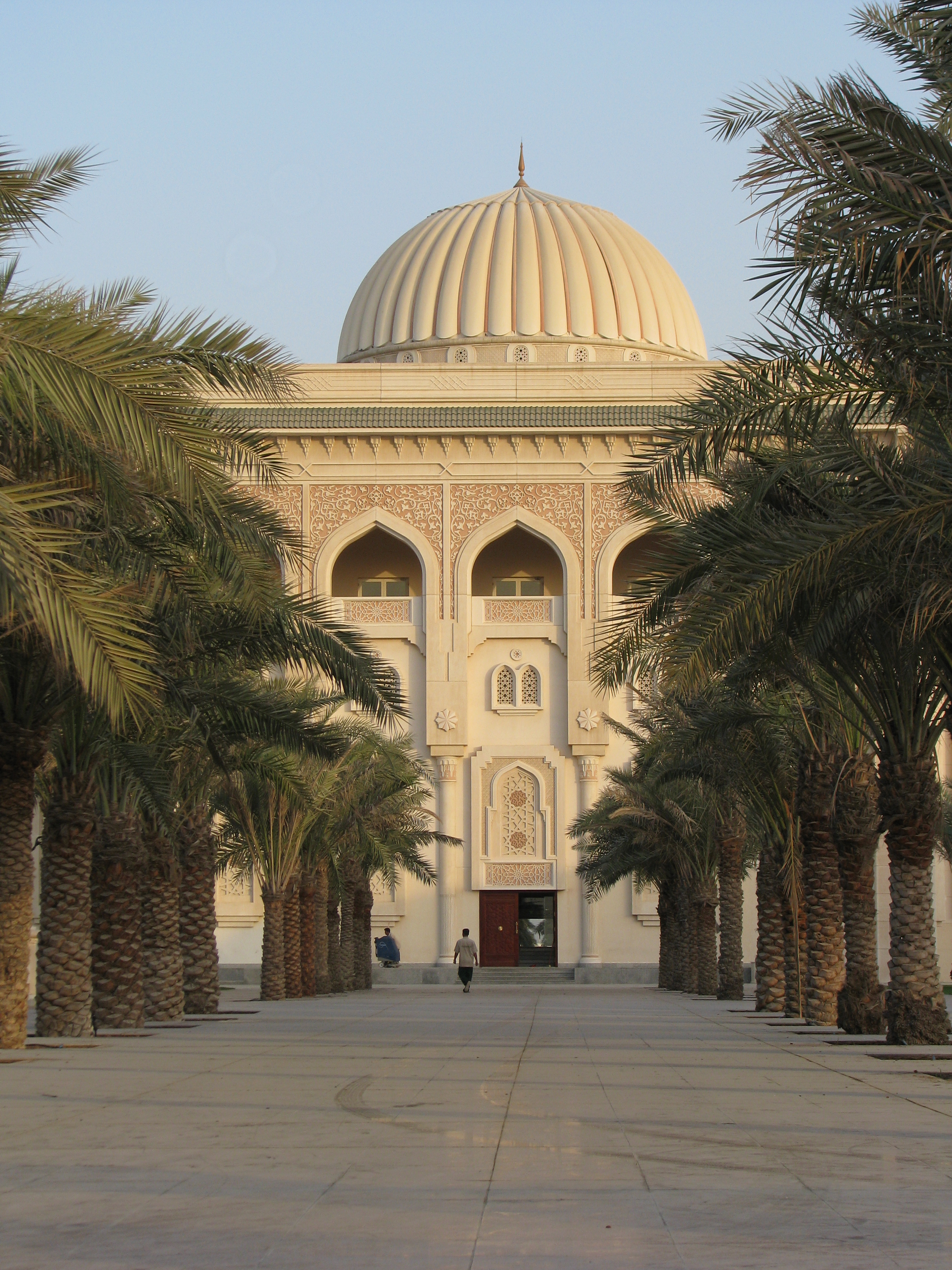 View of the main building of the American University of Sharjah